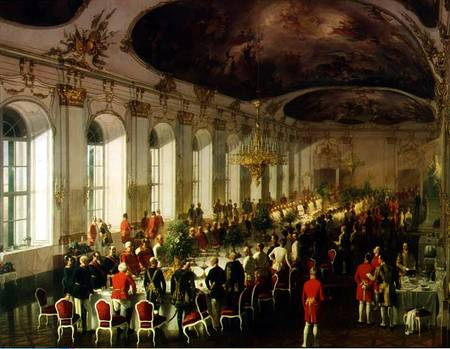 Celebration on the occasion of the anniversary of the Military Order of Maria Theresa, 1861